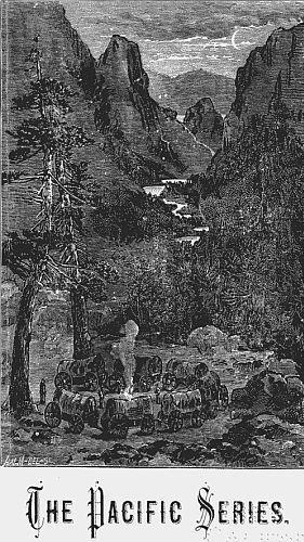 Frontispiece from 4 novels by Horatio Alger, Jr